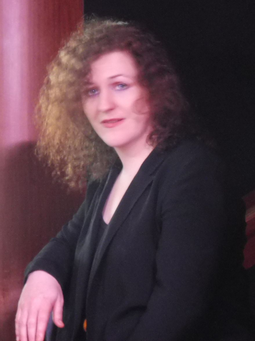 Australian pianist Tamara Anna Cislowska, 2018